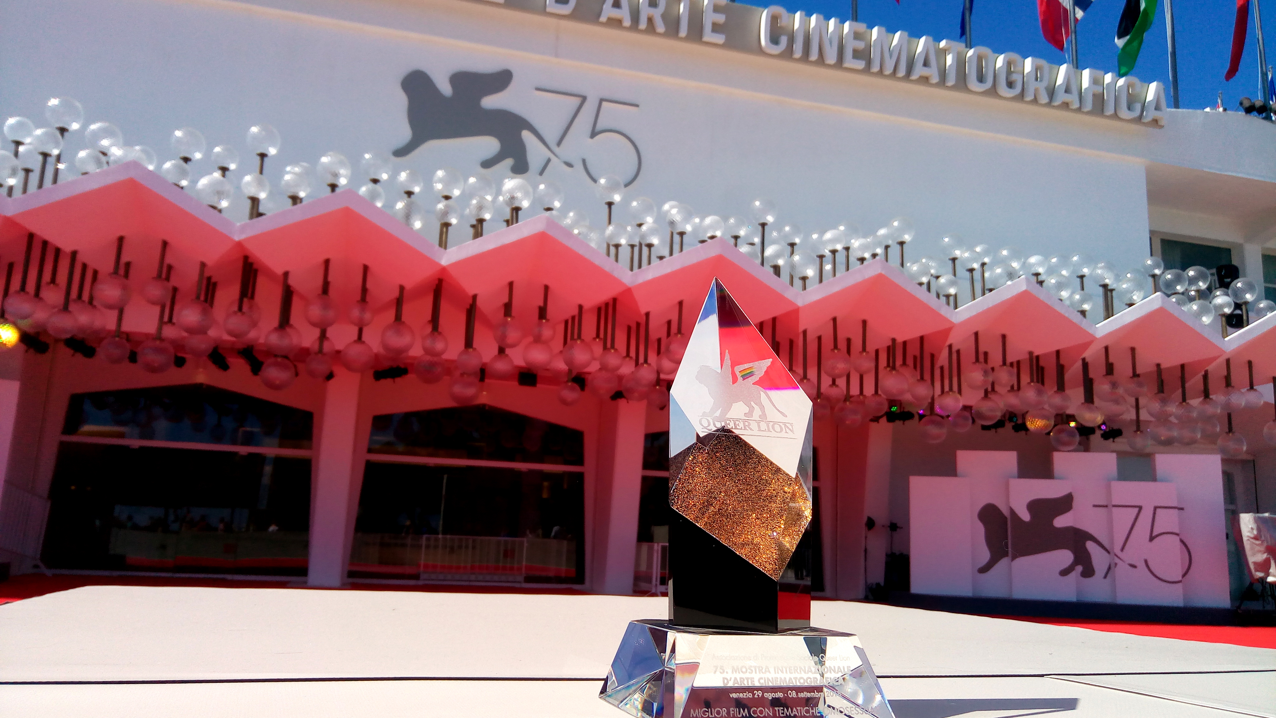 From 2018, the Queer Lion Award trophy is a glass prism, on a glass base, and engraved are the logo of the award, as well as the dates and number of Edition of the Venice International Film Festival